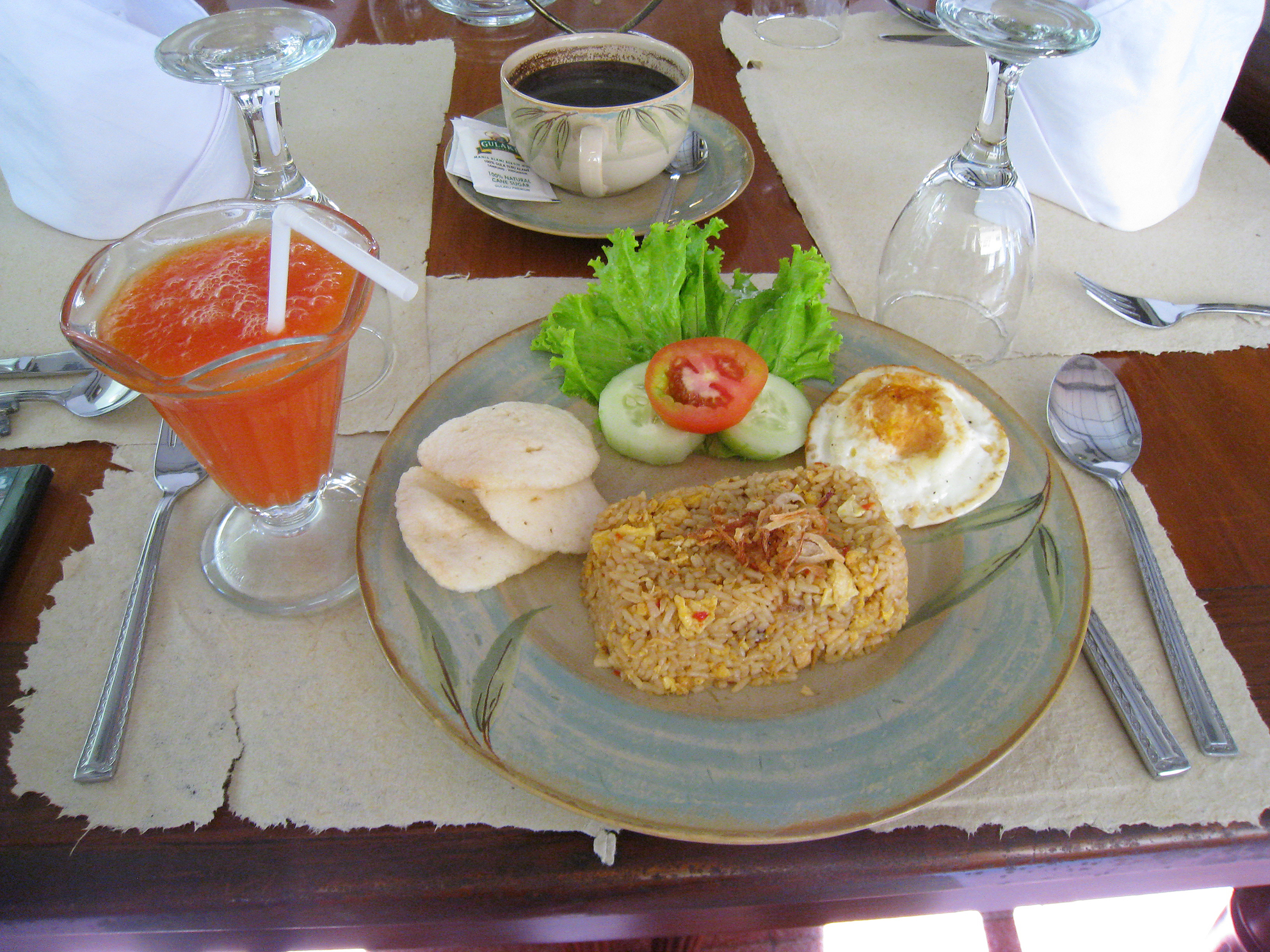 Nasi Goreng (Indonesian style fried rice) breakfast set in a hotel in Solo (Surakarta), Central Java, Indonesia. Chicken fried rice with fried shallot, fried egg, krupuk udang (prawn cracker), slices of cucumber, tomato, and lettuce, with papaya juice and a cup of black Java coffee.